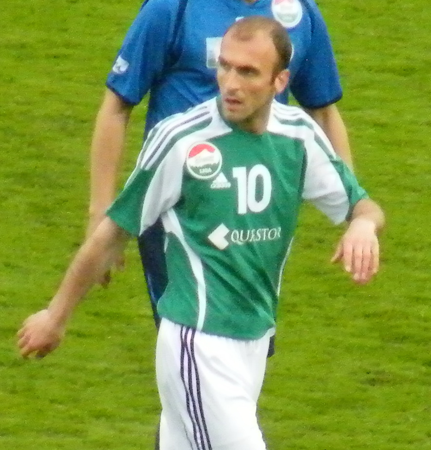 Rati Aleksidze Georgian association football player.